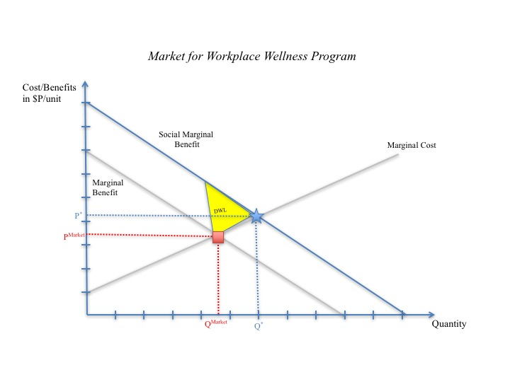 Due to increased health benefits, workplace wellness programs create a positive externality.